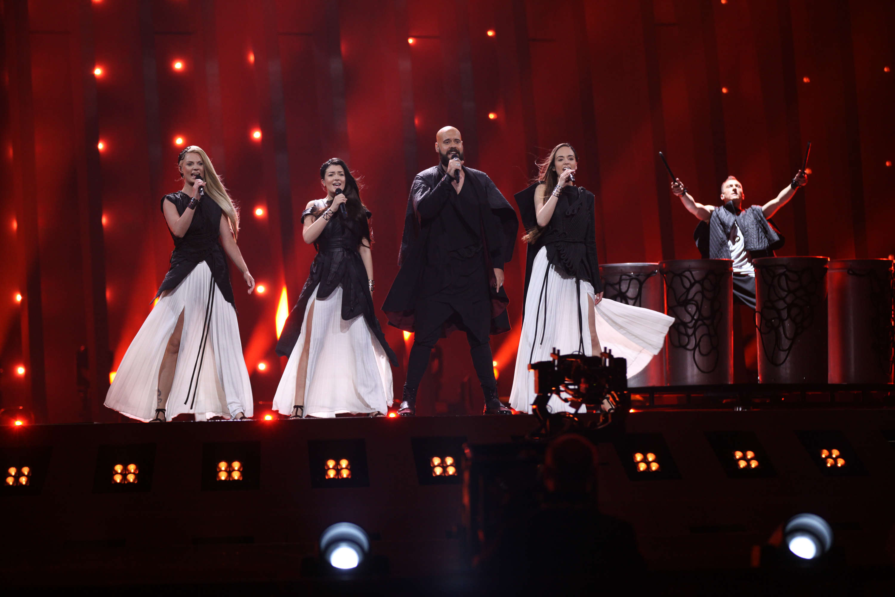 Sanja Ilić & Balkanika representing Serbia with the song "Nova deca" during a rehearsal before the second semi final of the Eurovision Song Contest 2018 in Lisbon.